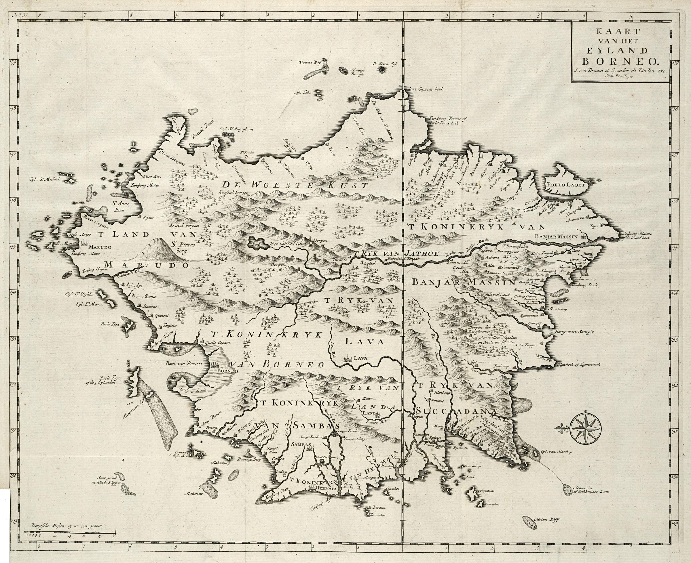 Map of Borneo. Kaart van het Eyland Borneo. Top left: No: 37. This plate is taken from the work 'Oud en Nieuw Oost-Indiën' by François Valentyn.